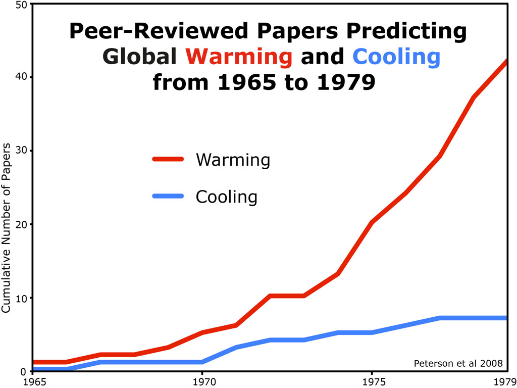 Ratio of 1970s peer-reviewed science papers predicting global warming compared to those predicting global cooling